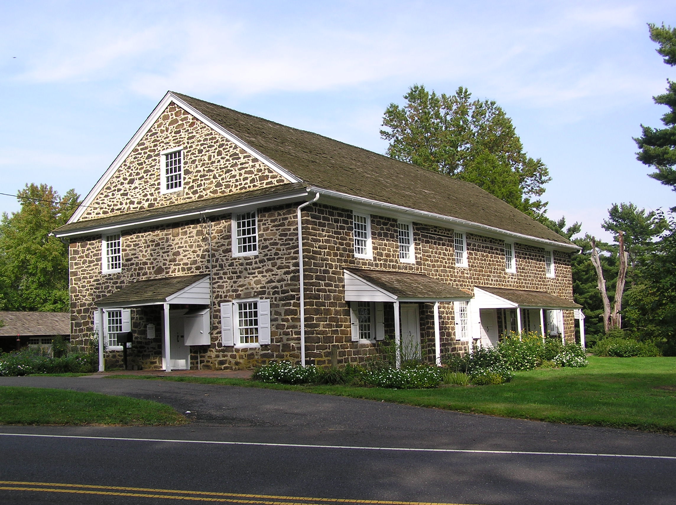 Evesham Friends Meeting House located at the intersection of Moorestown-Mt. Laurel and Hainesport-Mt. Laurel Roads in Mount Laurel, NJ. The oldest Friends Meetinghouse in Burlington County, New Jersey. IT was used as barracks for General Clintons troops in June, 1778.